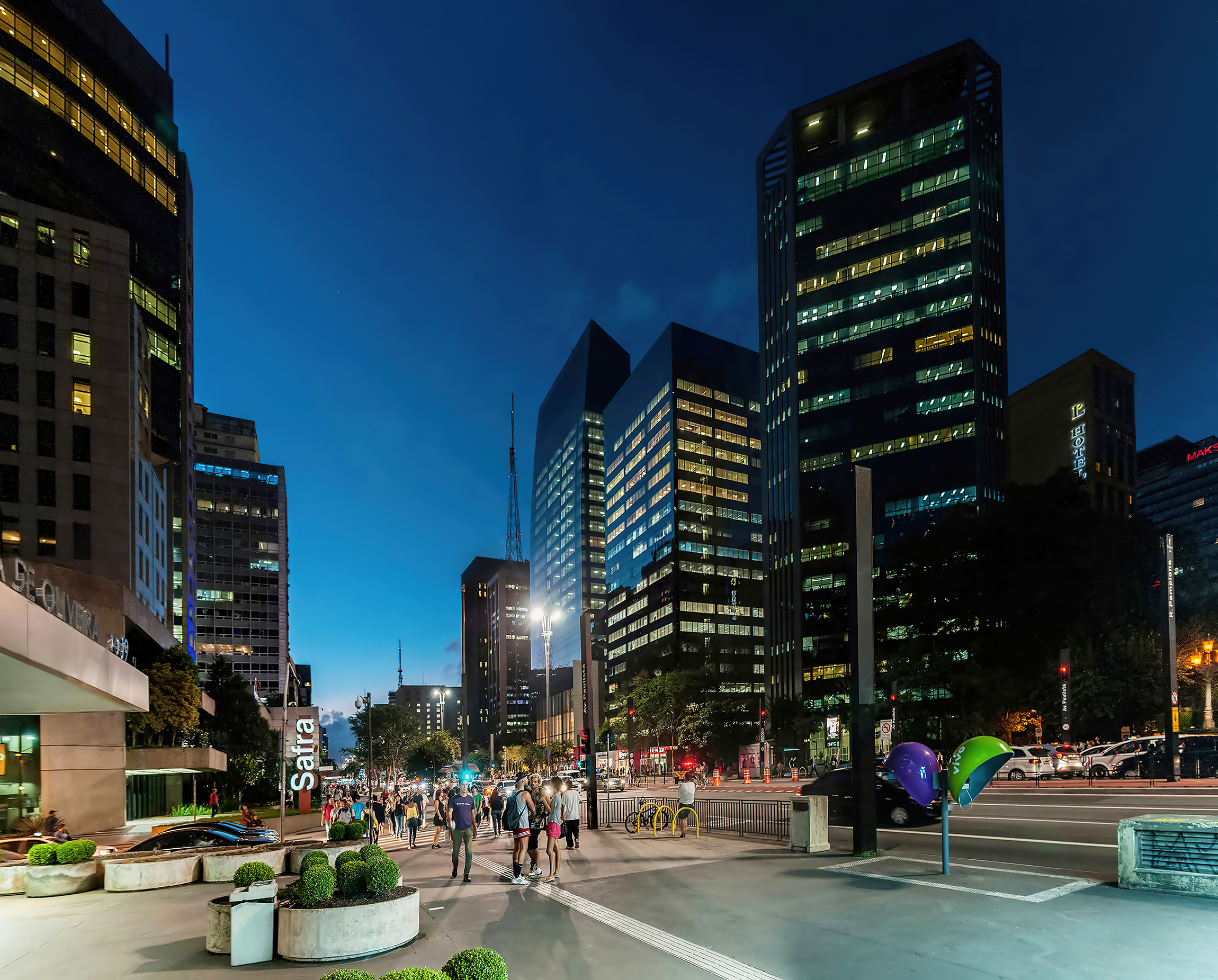 Paulista Avenue, São Paulo, Brazil